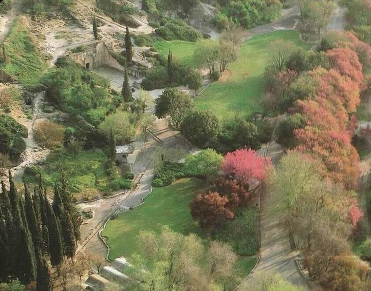 Beth She'arim created by he:משתמש:בן הטבע